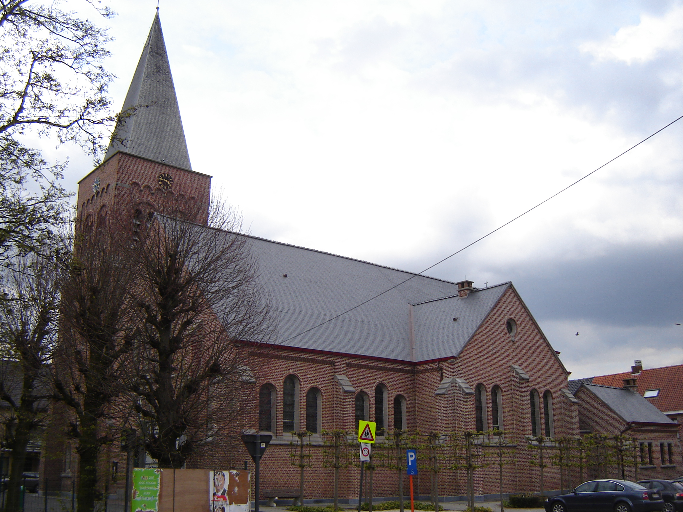 Church of Saint Teresa in Slypskapelle. Slypskapelle, Moorslede, West Flanders, Belgium